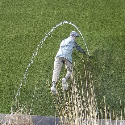 Hans Brinker, Madurodam, february 19, 2006 (cropped)